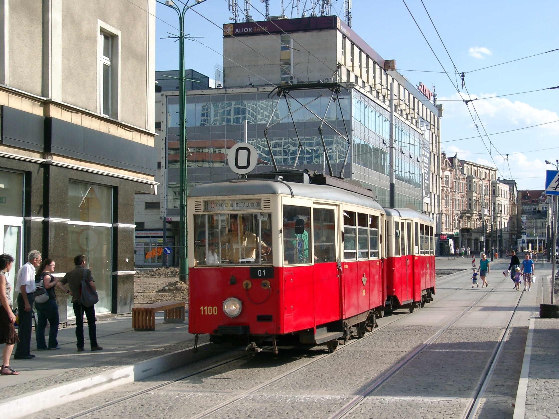 Konstal N TS 1100